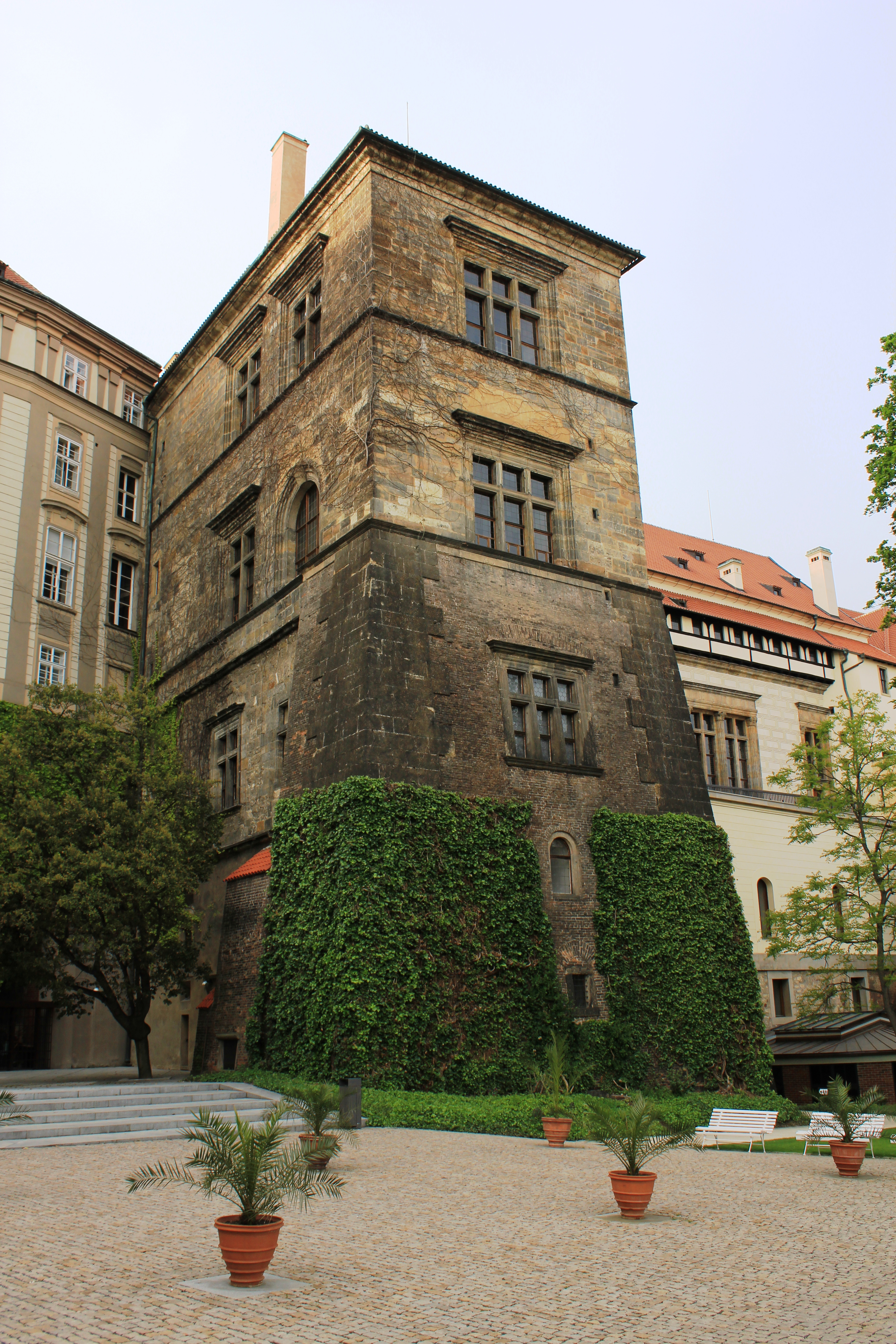 The Bohemian Cancelli where the 30 years war started with the defenestration in 1618 at prague Castle.